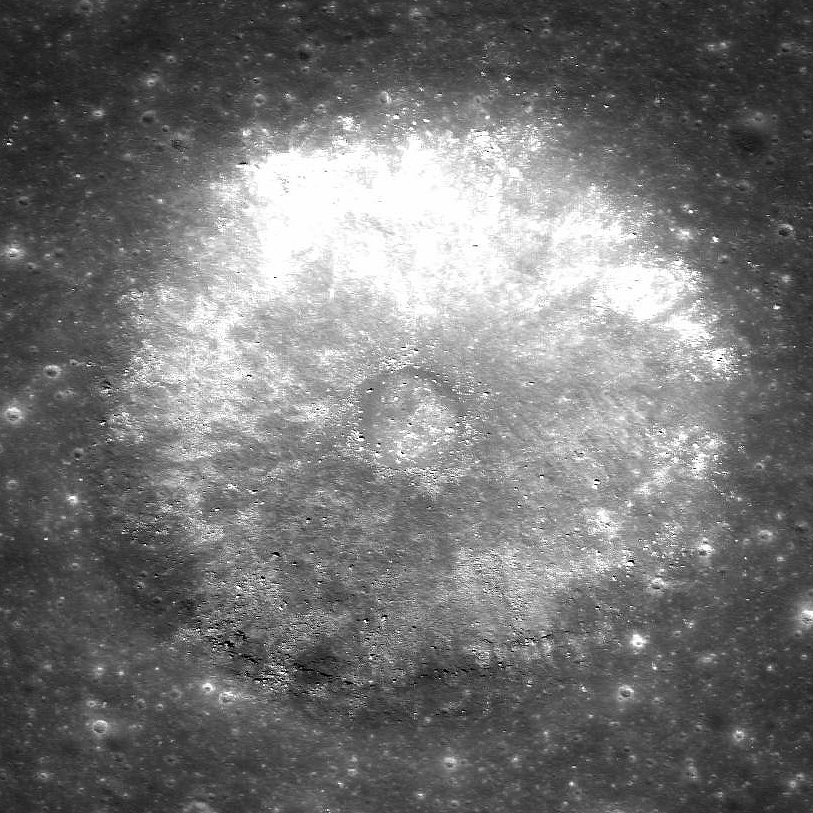 Annegrit crater - LROC NAC image M186056013LC (note: original NAC image is inverted vertically in link)